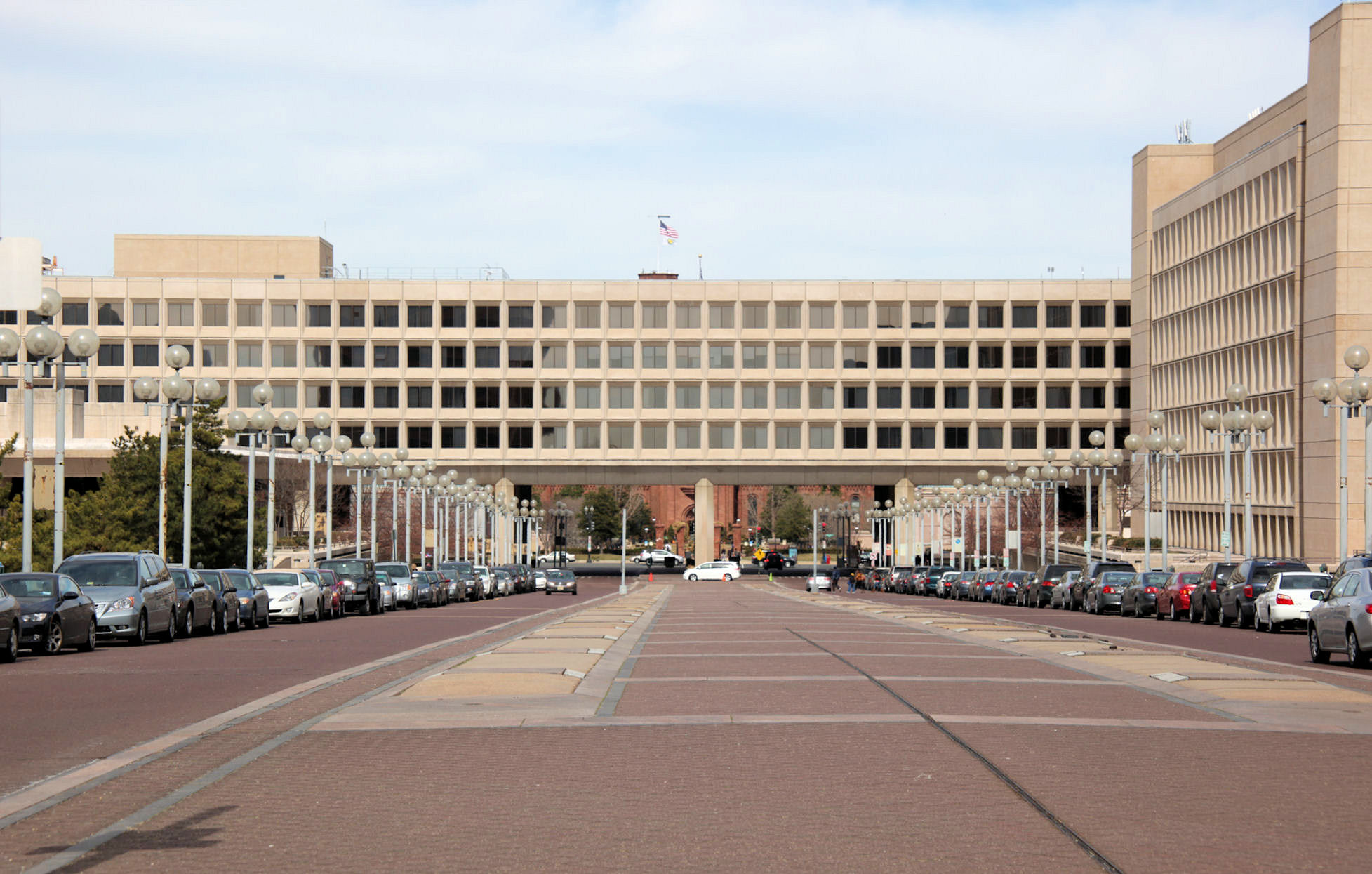 Looking north down L'Enfant Promenade at the rear of the James V. Forrestal Building main building. The Forrestal Building straddles the street, and is raised up from the ground on stilt-like columns to form a kind of colossal arch which looms heavily over the Promenade. The Forrestal Annex can be seen on the right side of this image. L'Enfant Promenade itself is the red brick path in the center of the image (bracketed on either side by lighter brick road bumps). The street which forms L'Enfant Place SW is on either side of the Promenade. The Smithsonian Castle, the administrative headquarters for the Smithsonian Institution, can just be seen underneath the Forrestal Main Building (looking through the passage formed by L'Enfant Promenade and on the other side of Independence Avenue SW).